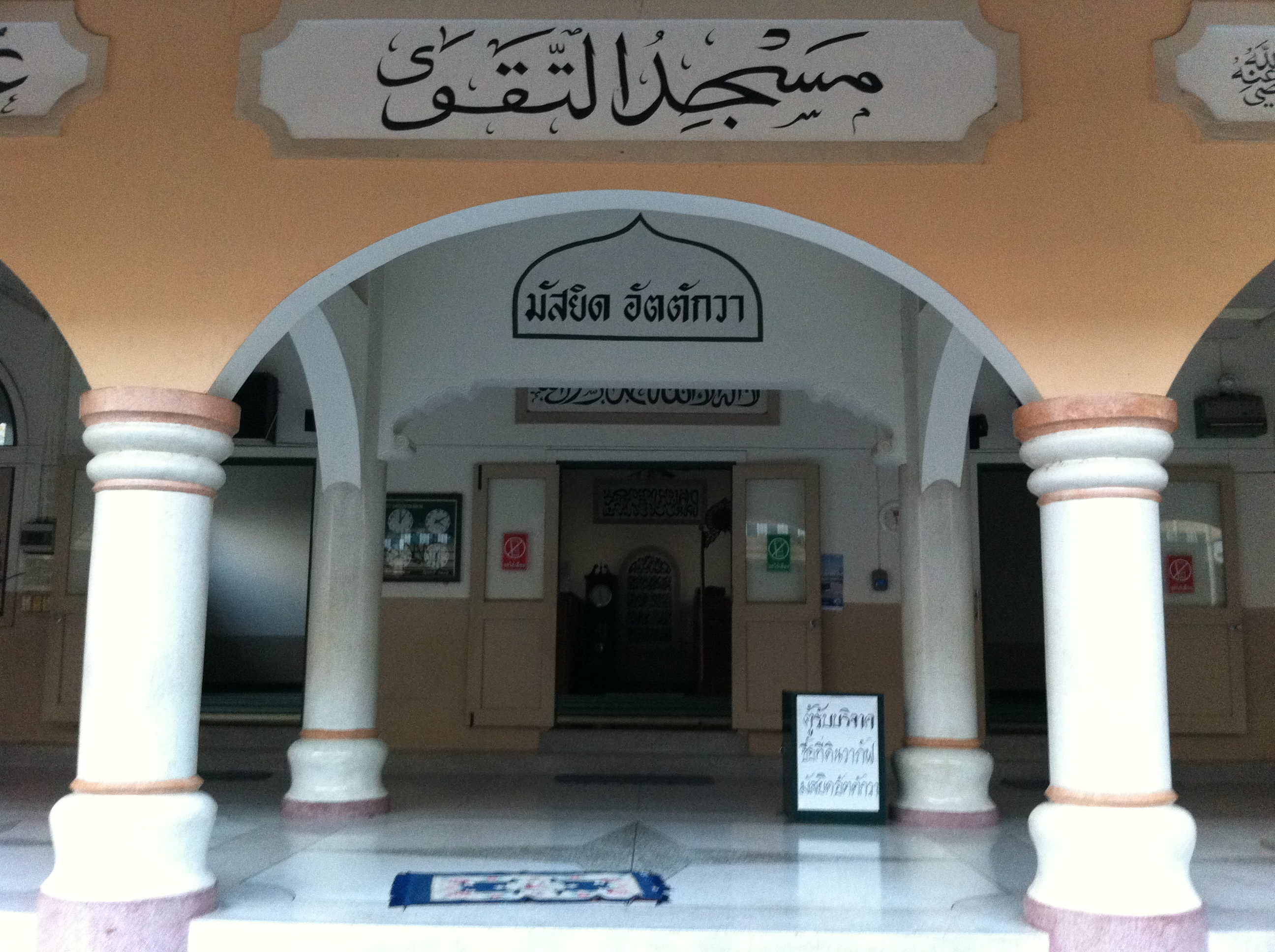 Attaqwa Mosque, Chiang Mai, 2011